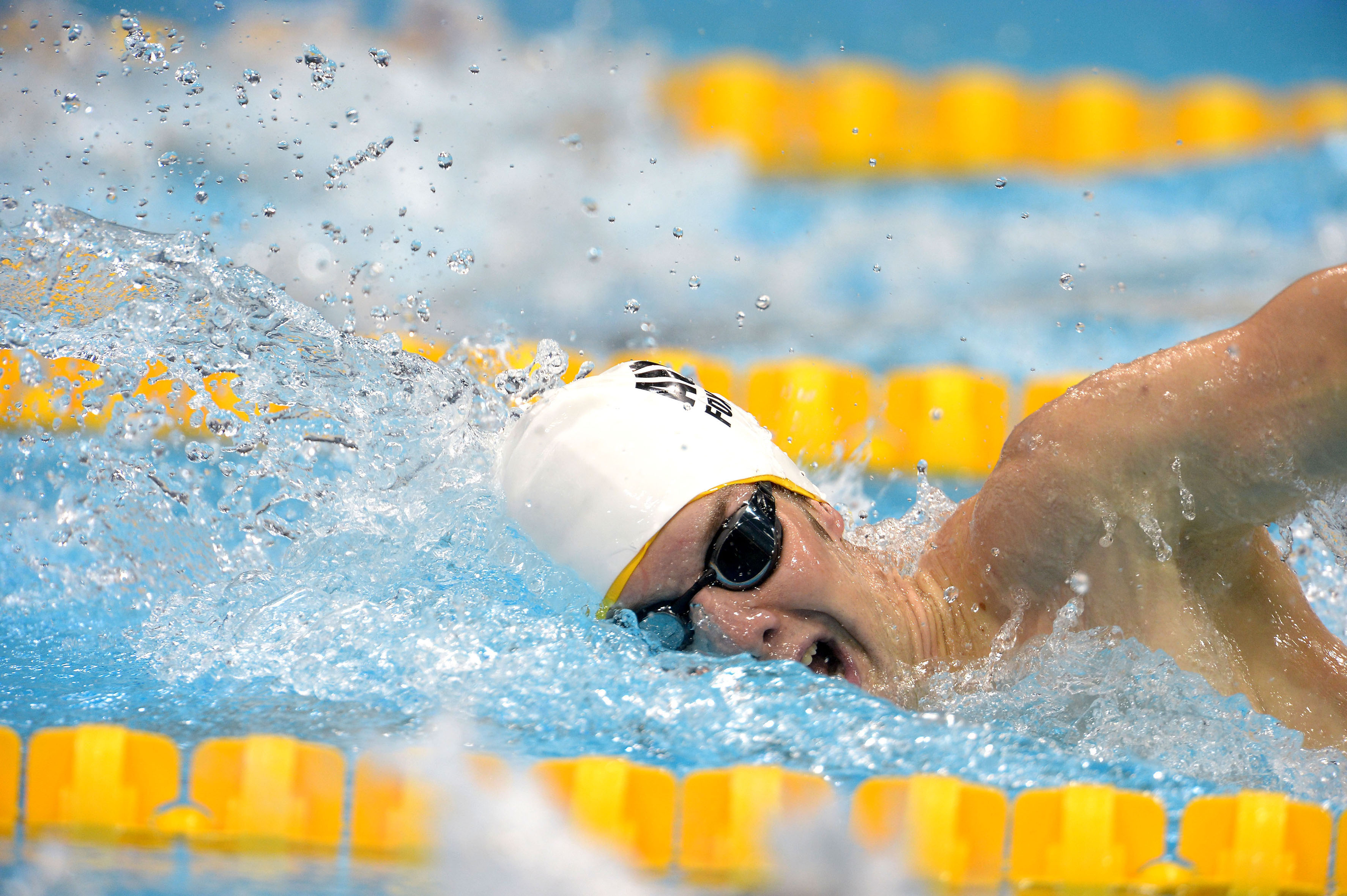 Photograph of Australian Paralympic team member Daniel Fox at the 2012 Summer Paralympic Games in London